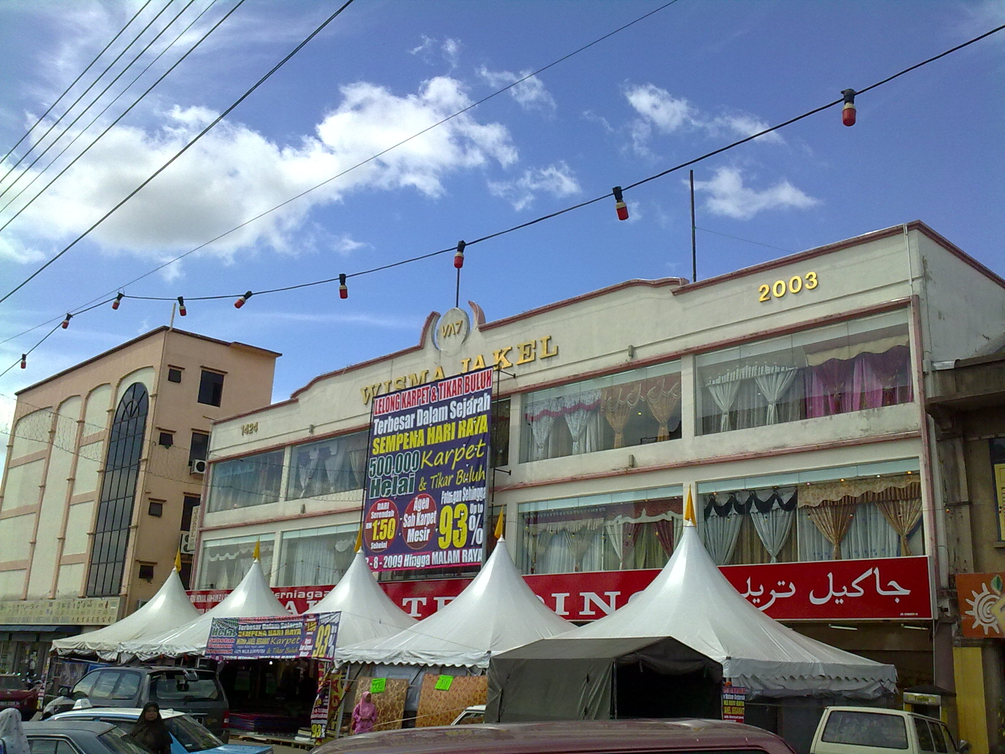 Wisma Jakel